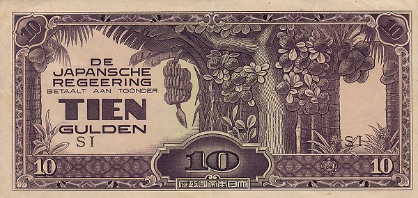 Japanese Invasion Money - Netherlands Indies 10 Gulden